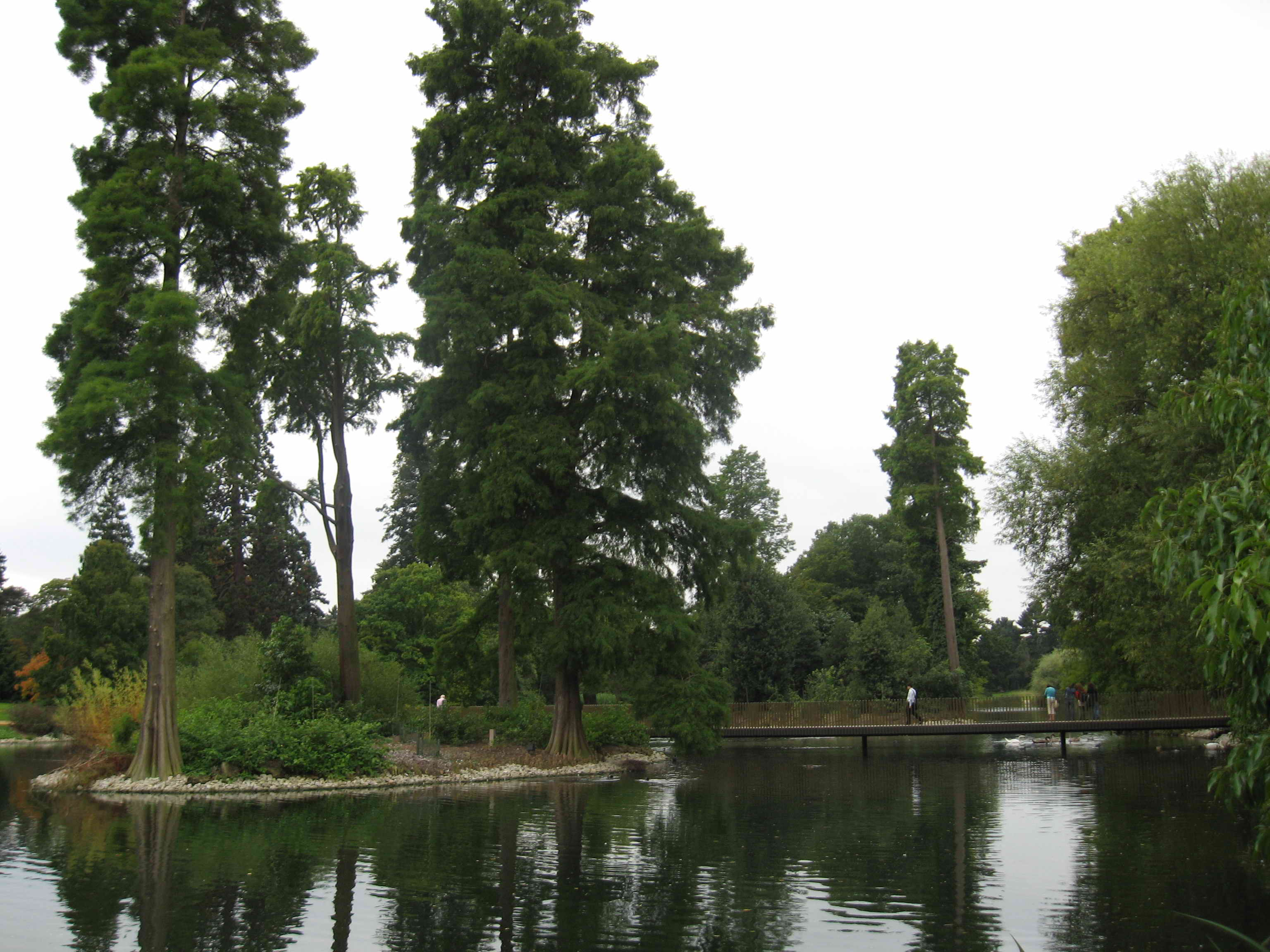 Kew Lake and Sackler bridge